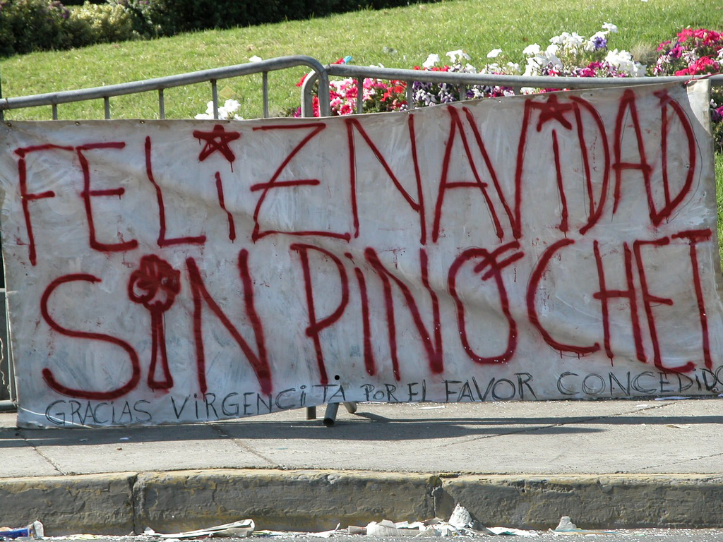 "Feliz Navidad sin Pinochet", banner photographed in Santiago, Chile